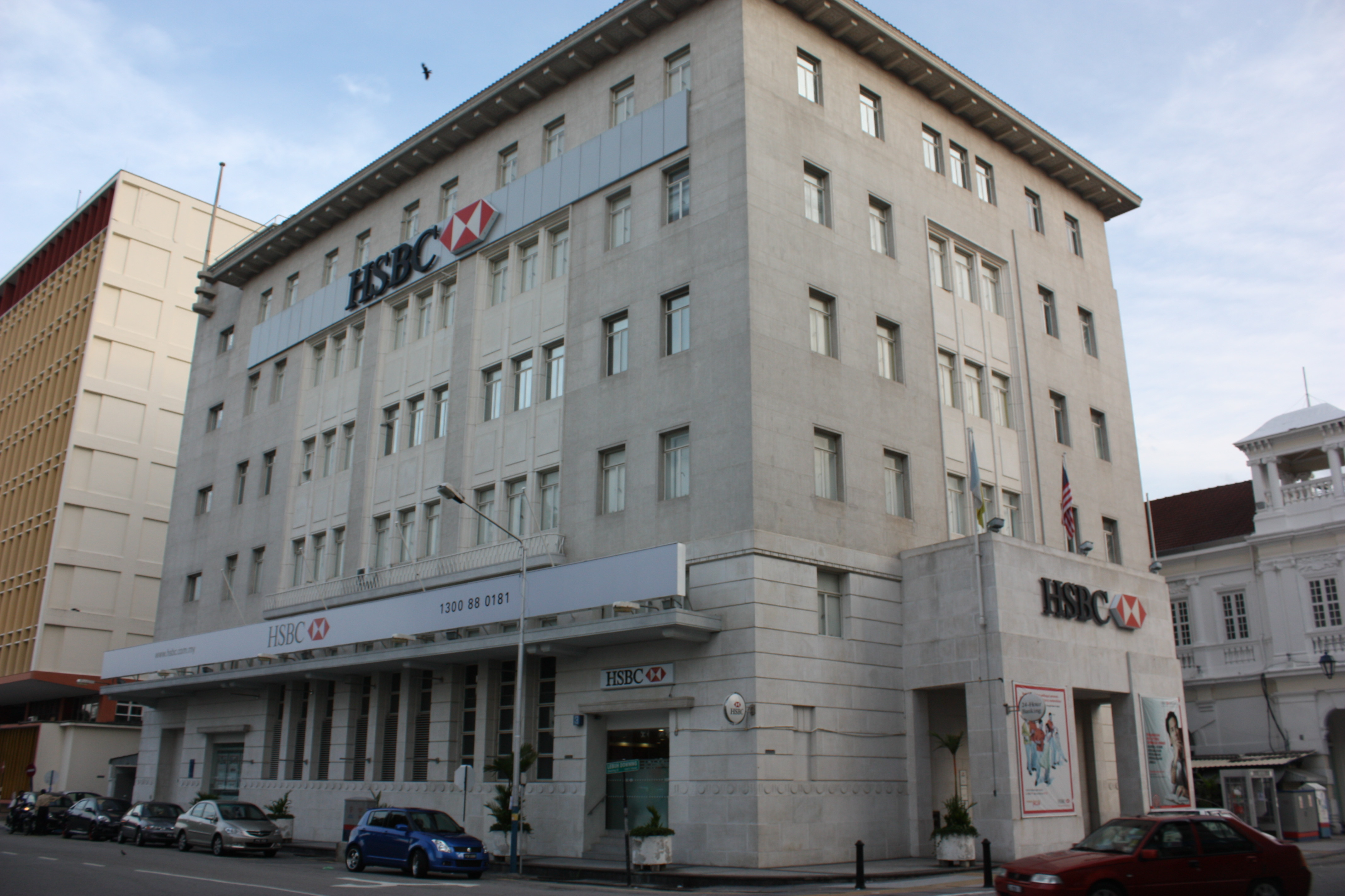 Hongkong Shanghai Banking Limited at Beach Street in Penang, taken by Wolfgang Holzem /